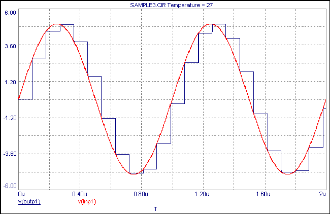 Analysis of a Sample and Hold circuit on Spectrum Software Micro-Cap 9.